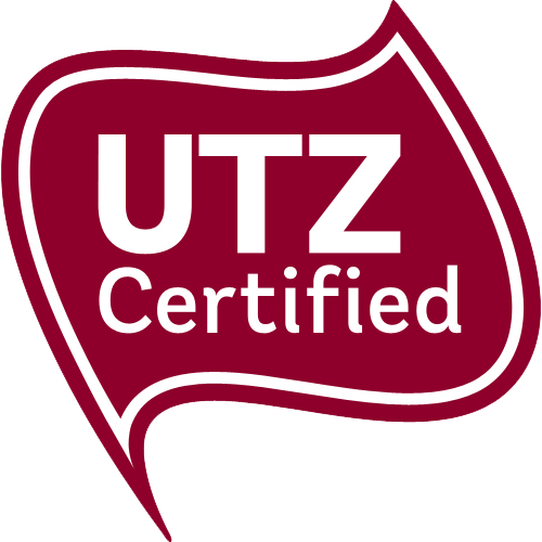 UTZ Certified logo